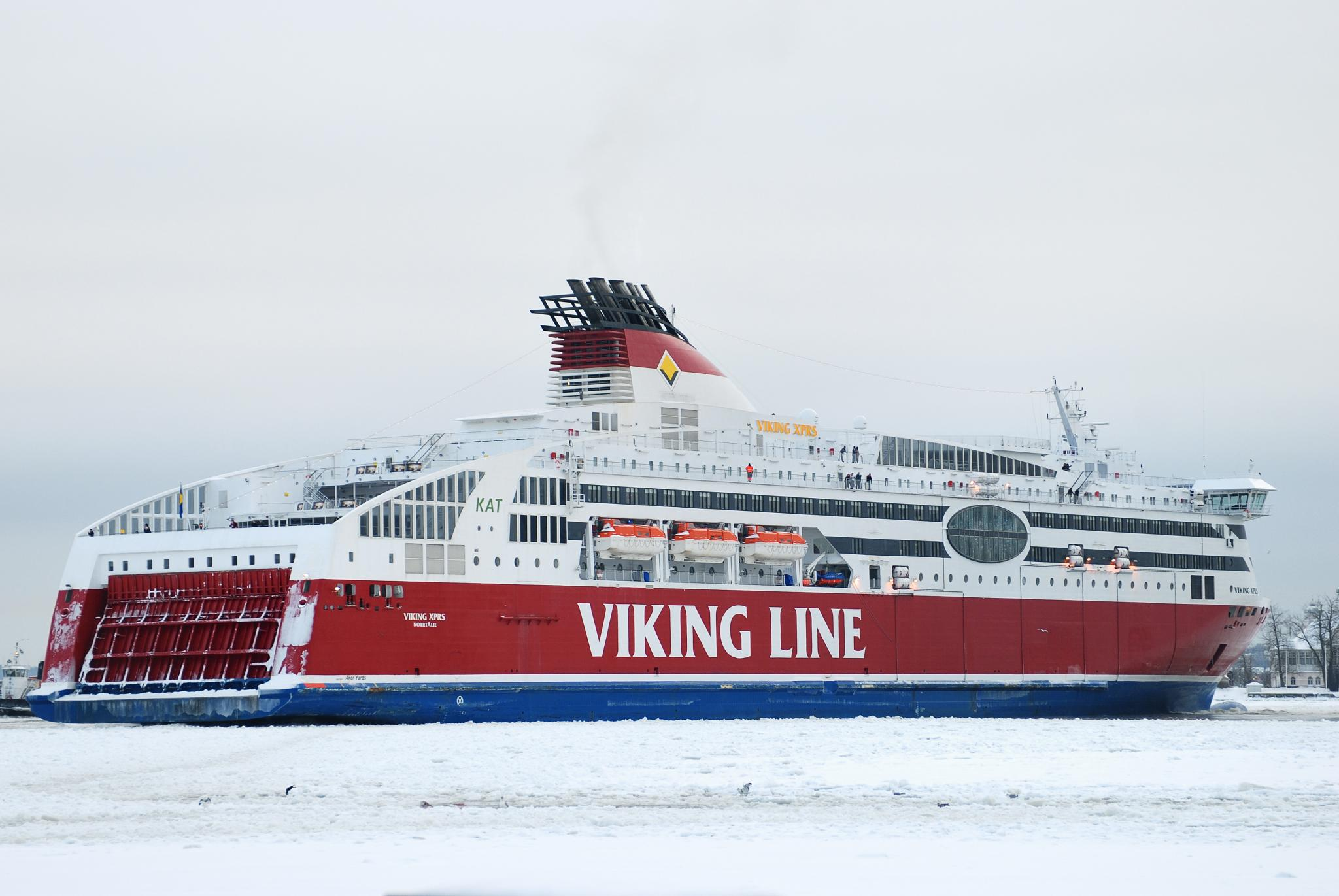 The MS Viking XPRS at pier in Helsinki, Finland.